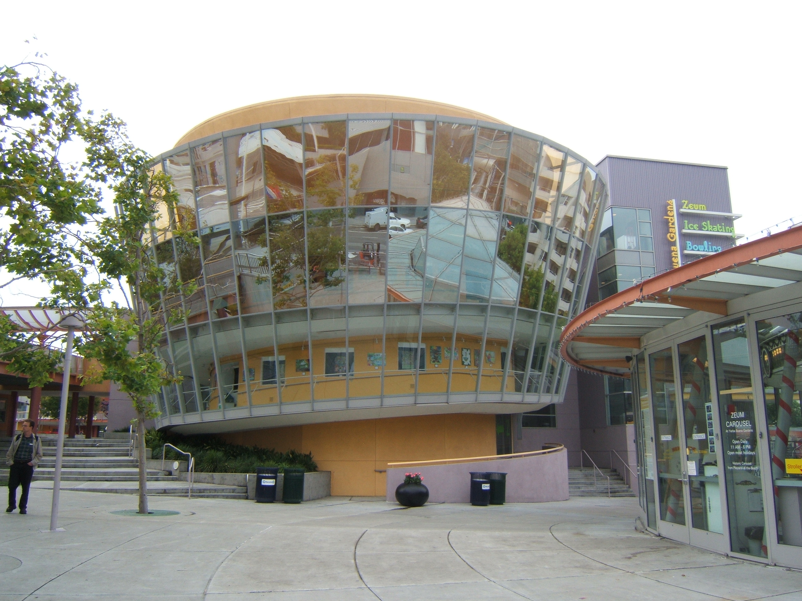 Zeum, an interactive children's art and technology museum located in San Francisco, California.